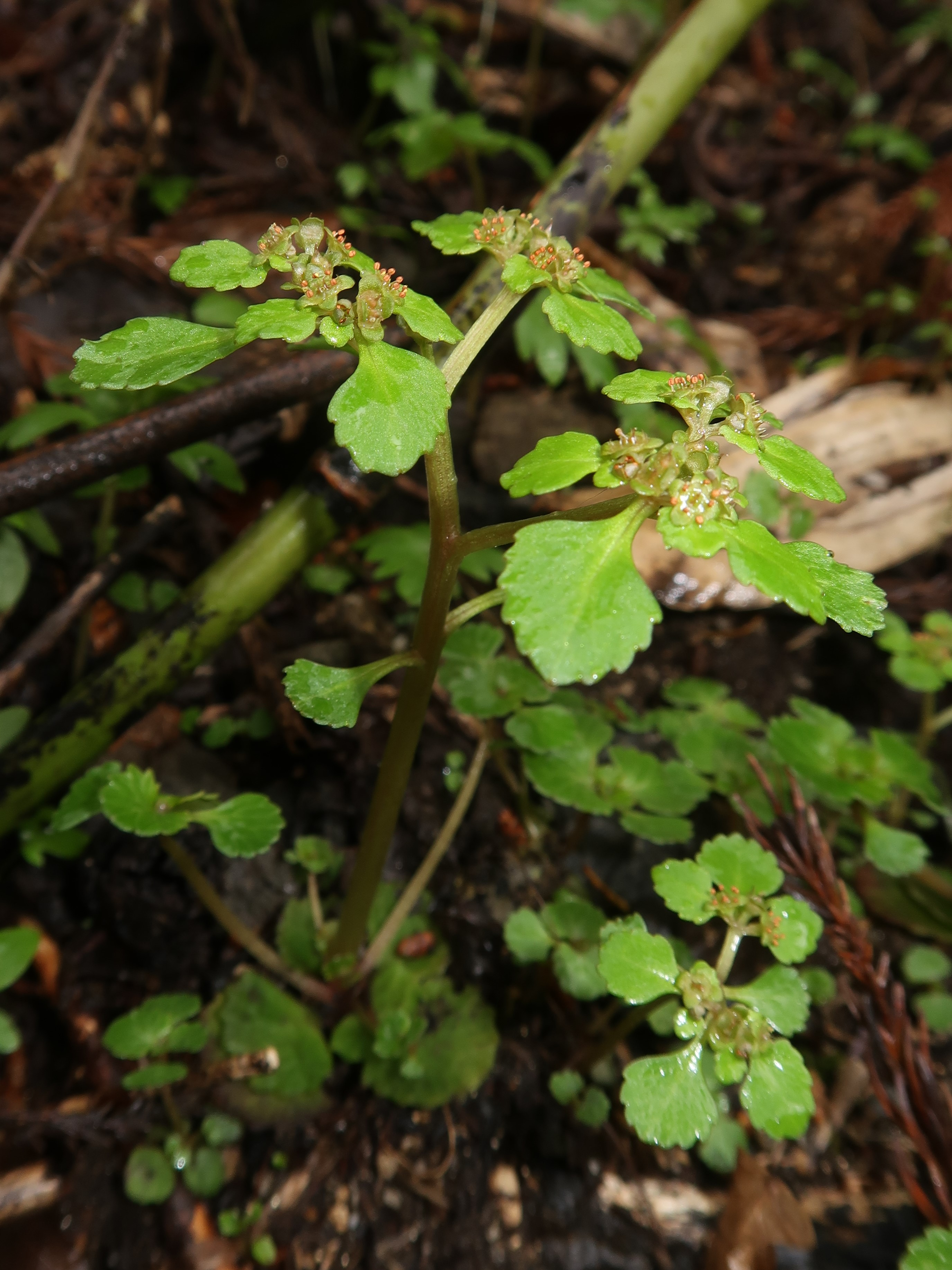 Chrysosplenium kamtschaticum, Aizu area, Fukushima pref., Japan